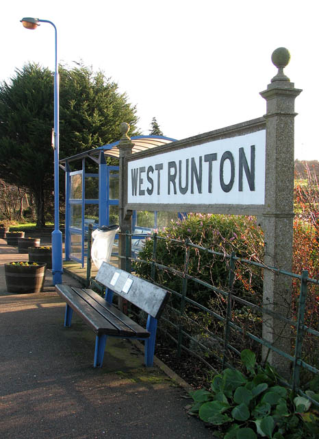 West Runton railway station - concrete name sign